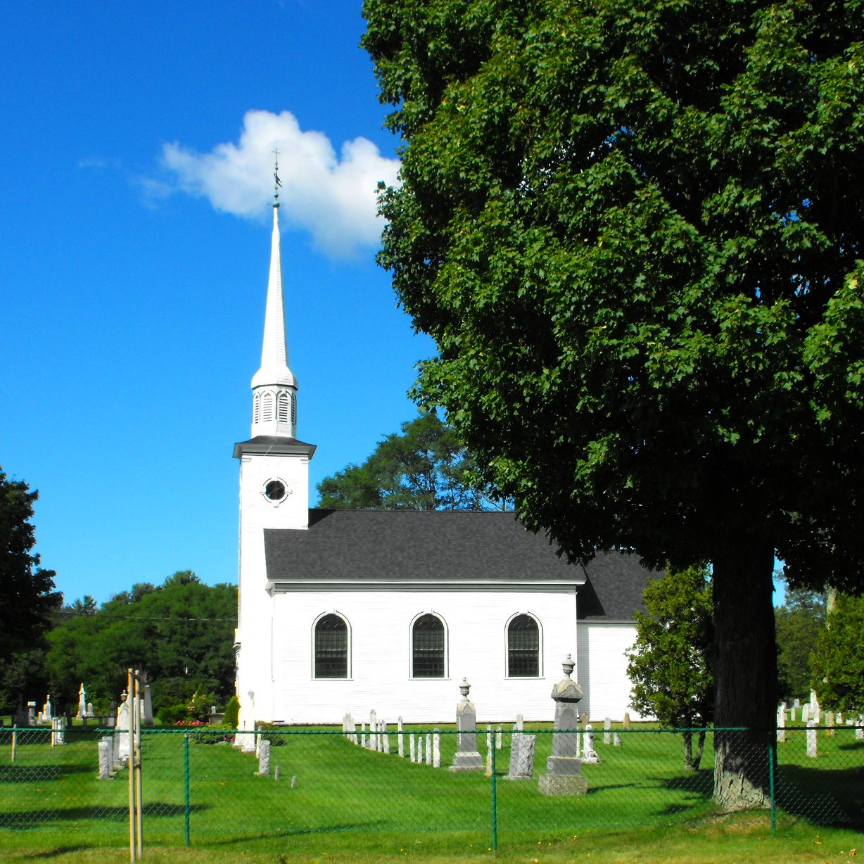 St Marys Anglican Church, Auburn, Kings County, Nova Scotia. The church dates from 1790.